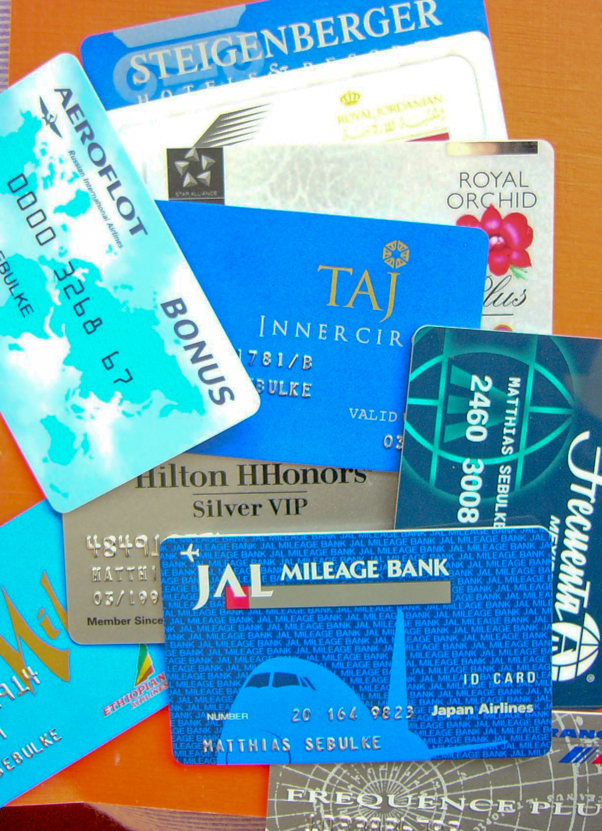 Different customer loyality cards